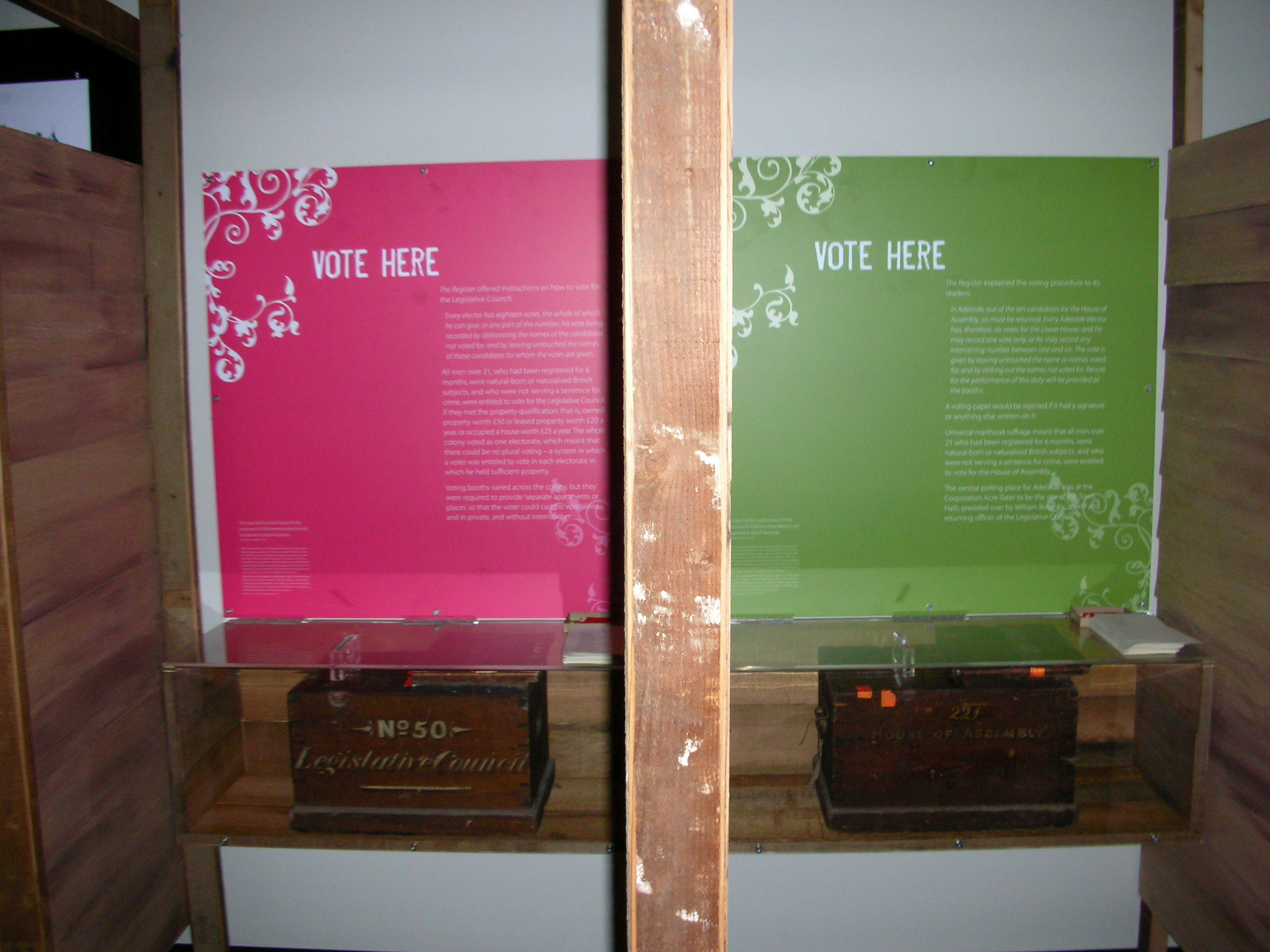 Photo taken by myself at "The Voice of the People - Democracy comes to SA" exhibition at Torrens Parade Ground, Victoria Drive, Adelaide SA. Timeshift 02:23, 27 October 2006 (UTC)